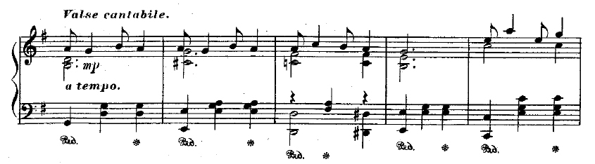 Main Theme from Bethena, A Concert Waltz, by Scott Joplin, bars 9-13.